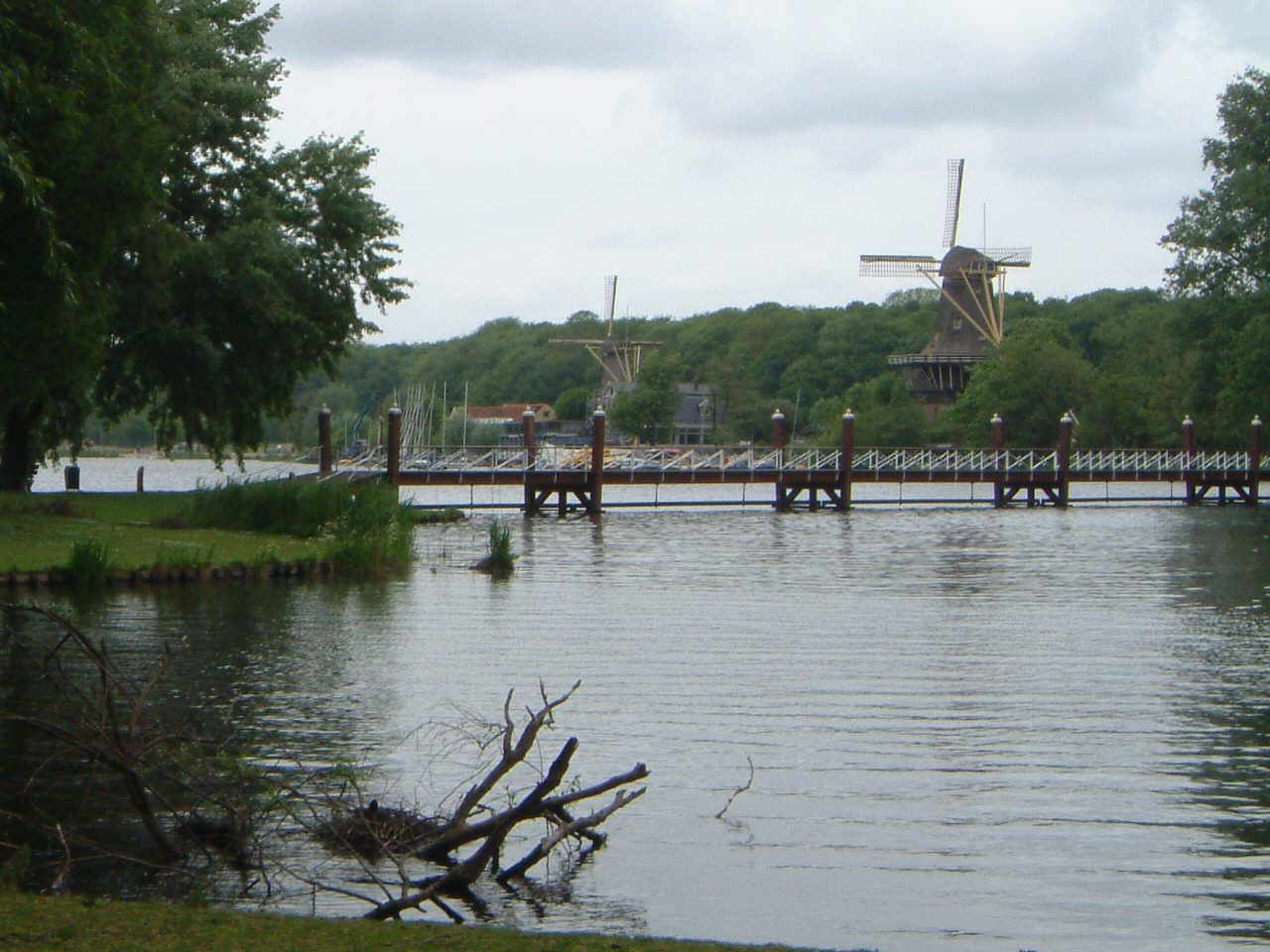 The plasmolens at de Kralingse Plas